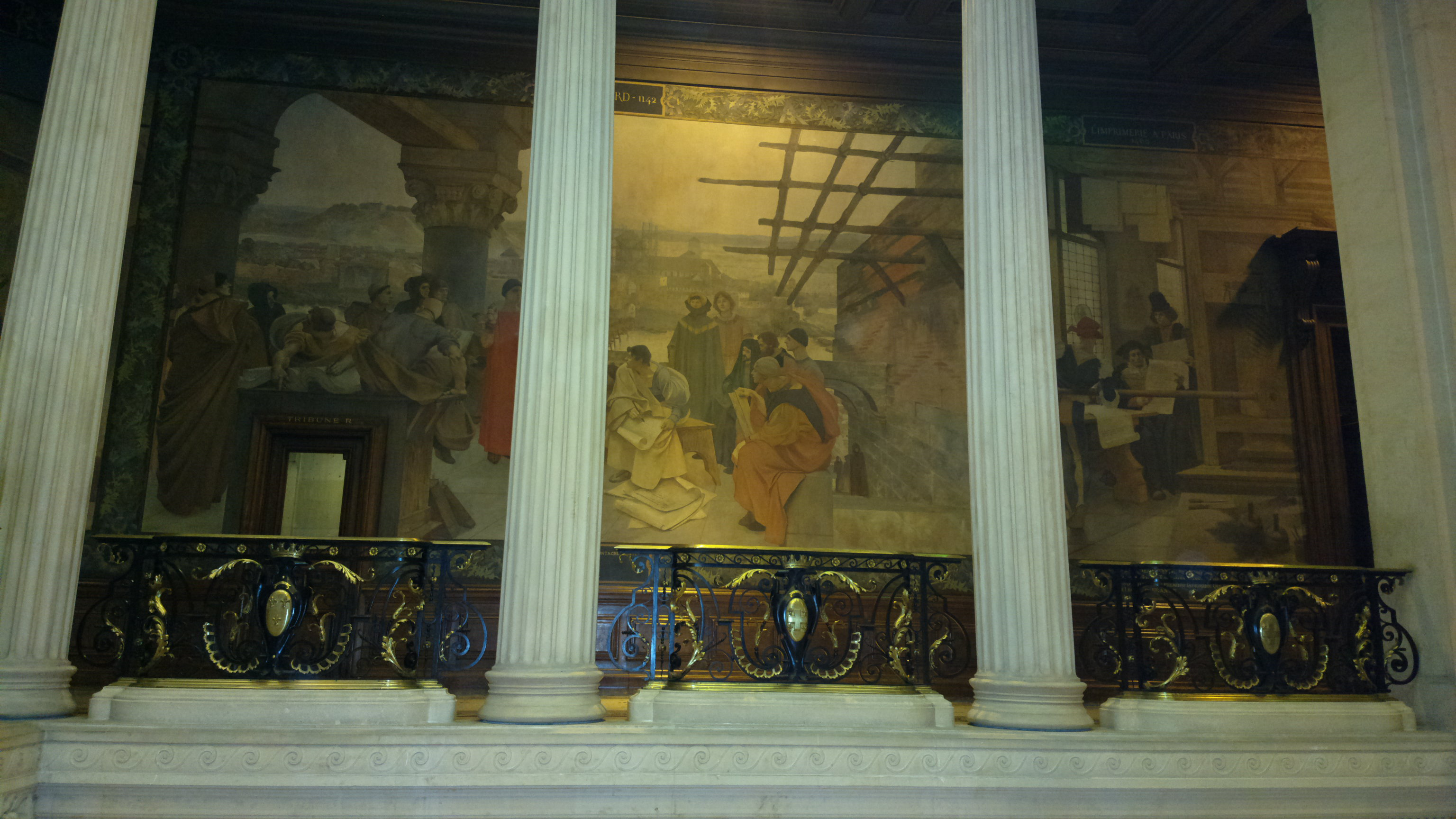 Peter Abelard in Sorbonne (building)